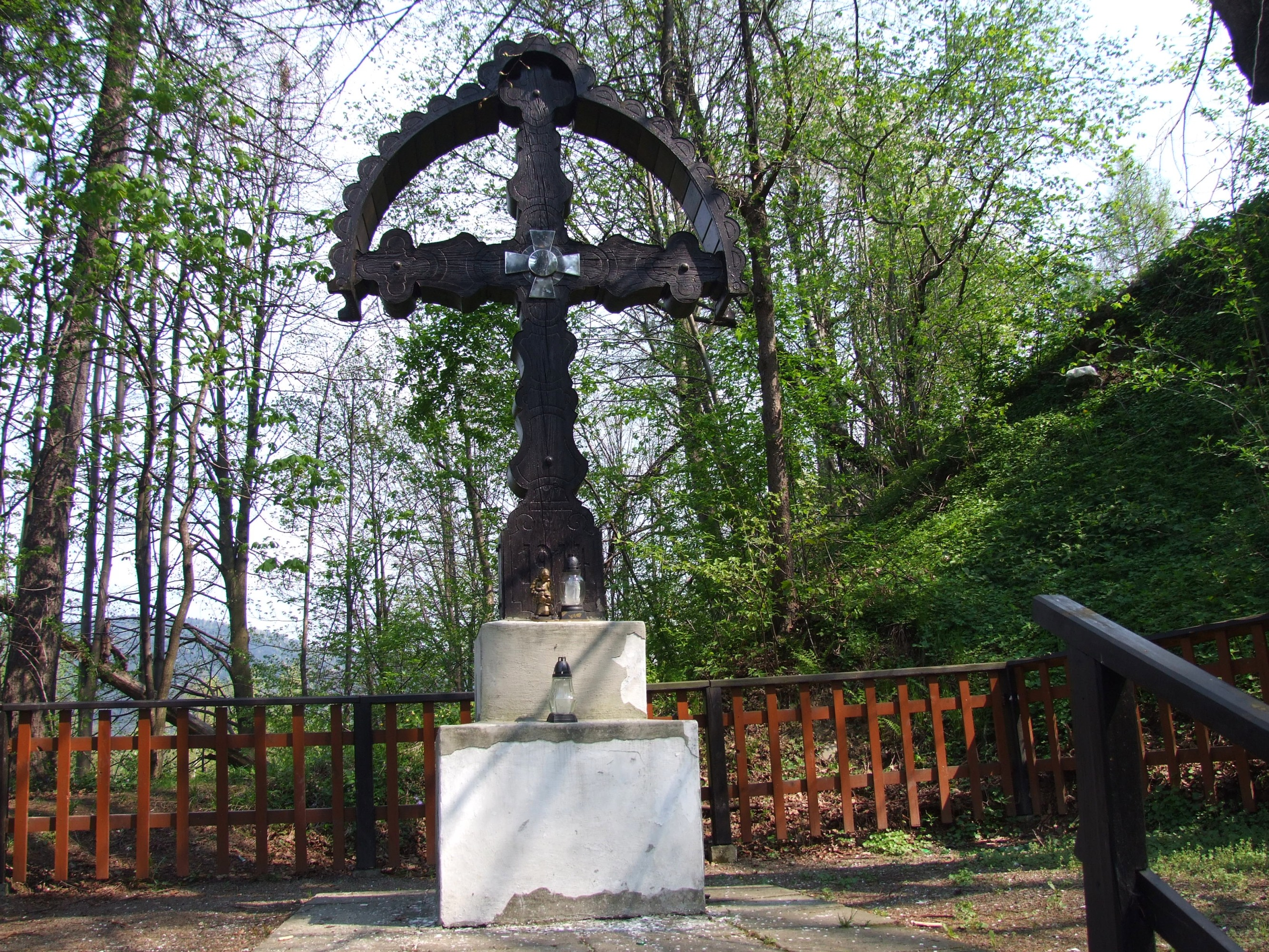 World War I Cemetery nr 365 in Tymbark